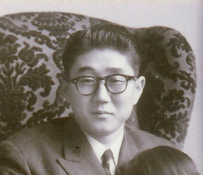 LDP congressman Shintarō Abe